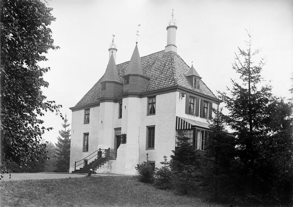 Castle Coelhorst near Amersfoort